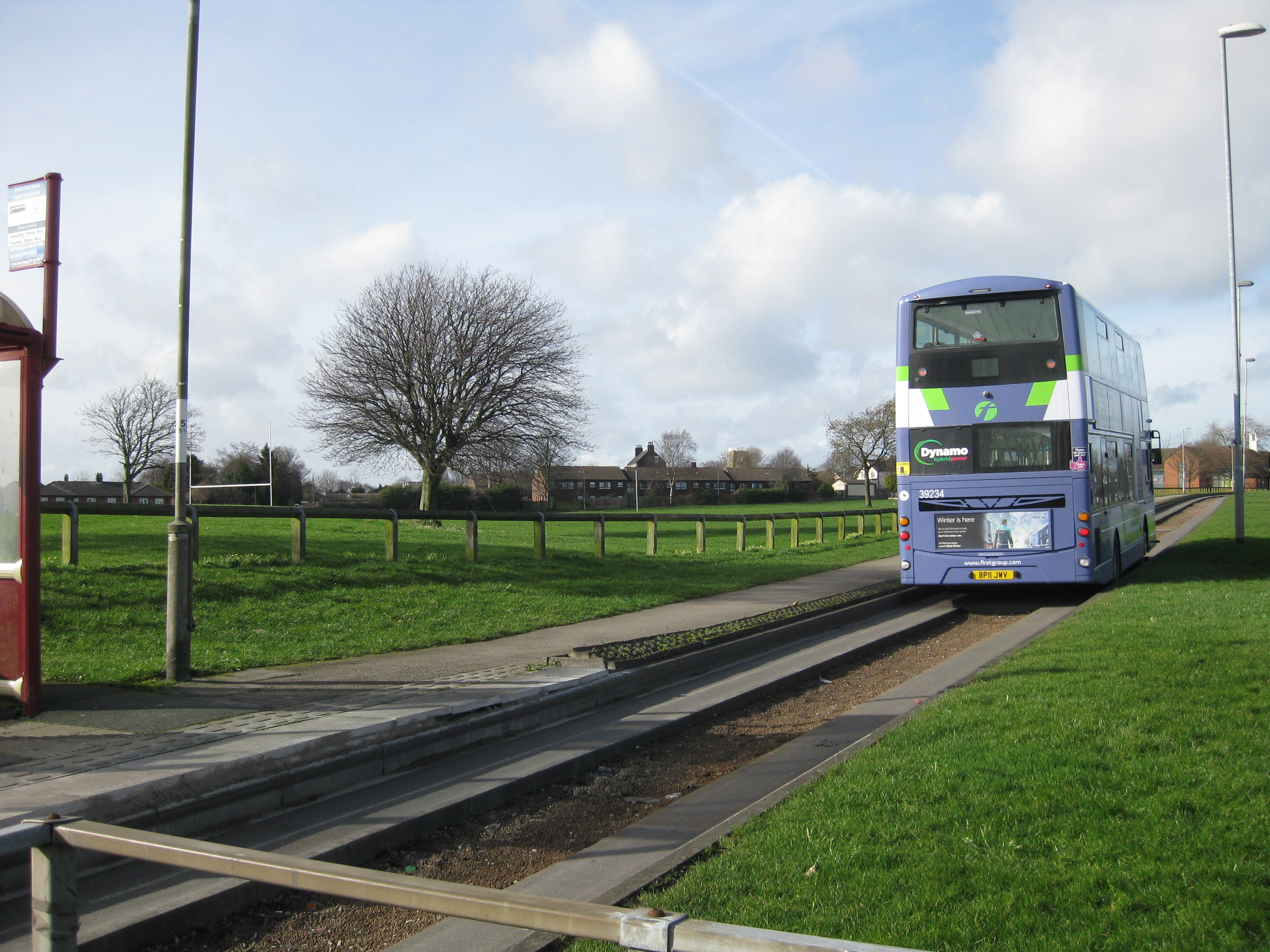 Guided bus lane with double-decker bus (7S to Shadwell) on Scott Hall Road, just south of the junction with Potternewton Lane.